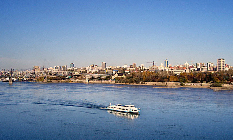 Novosibirsk. View onto central part of the right bank.